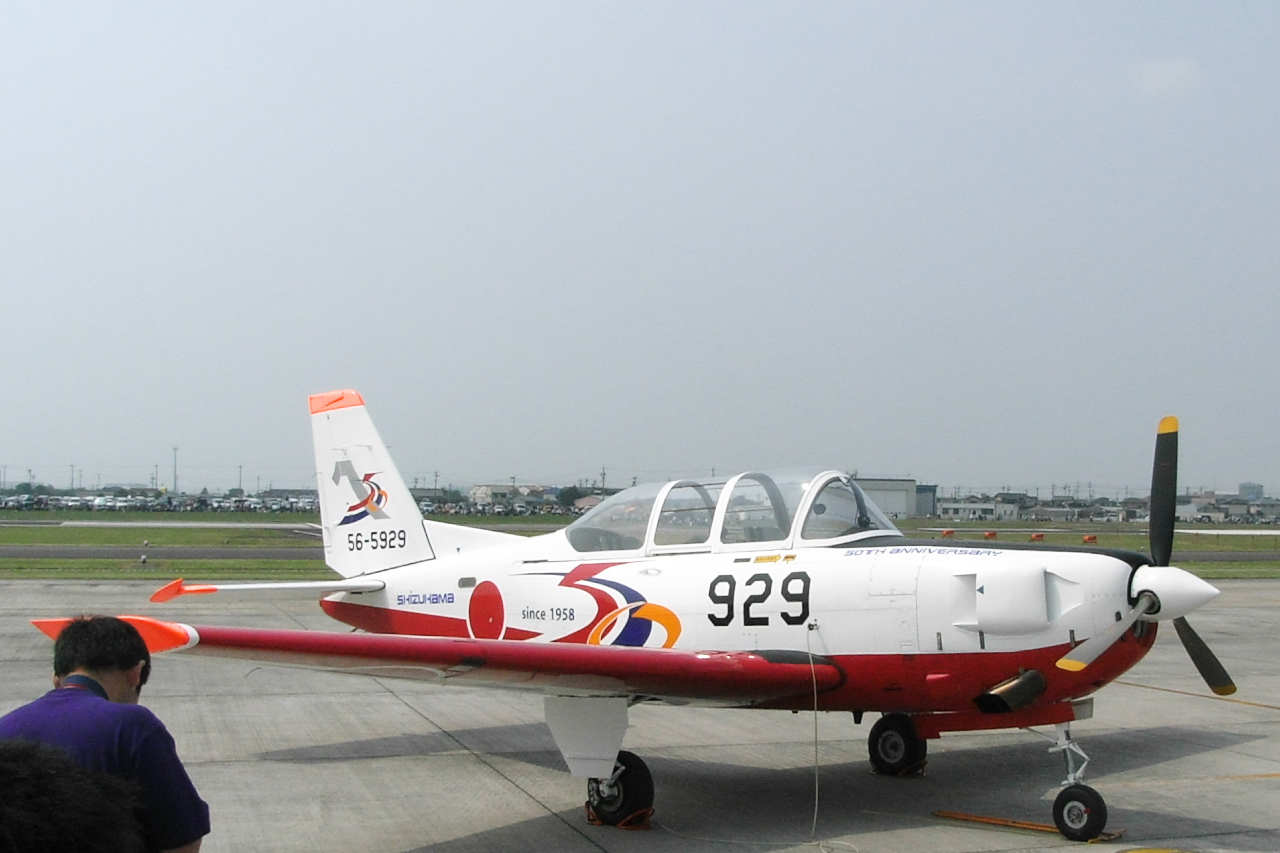 The JASDF 11th Flying Training Wing Fuji T-7 is the Shizuhama Base 50th Anniversary commemorative painting for Festival (Airshows).